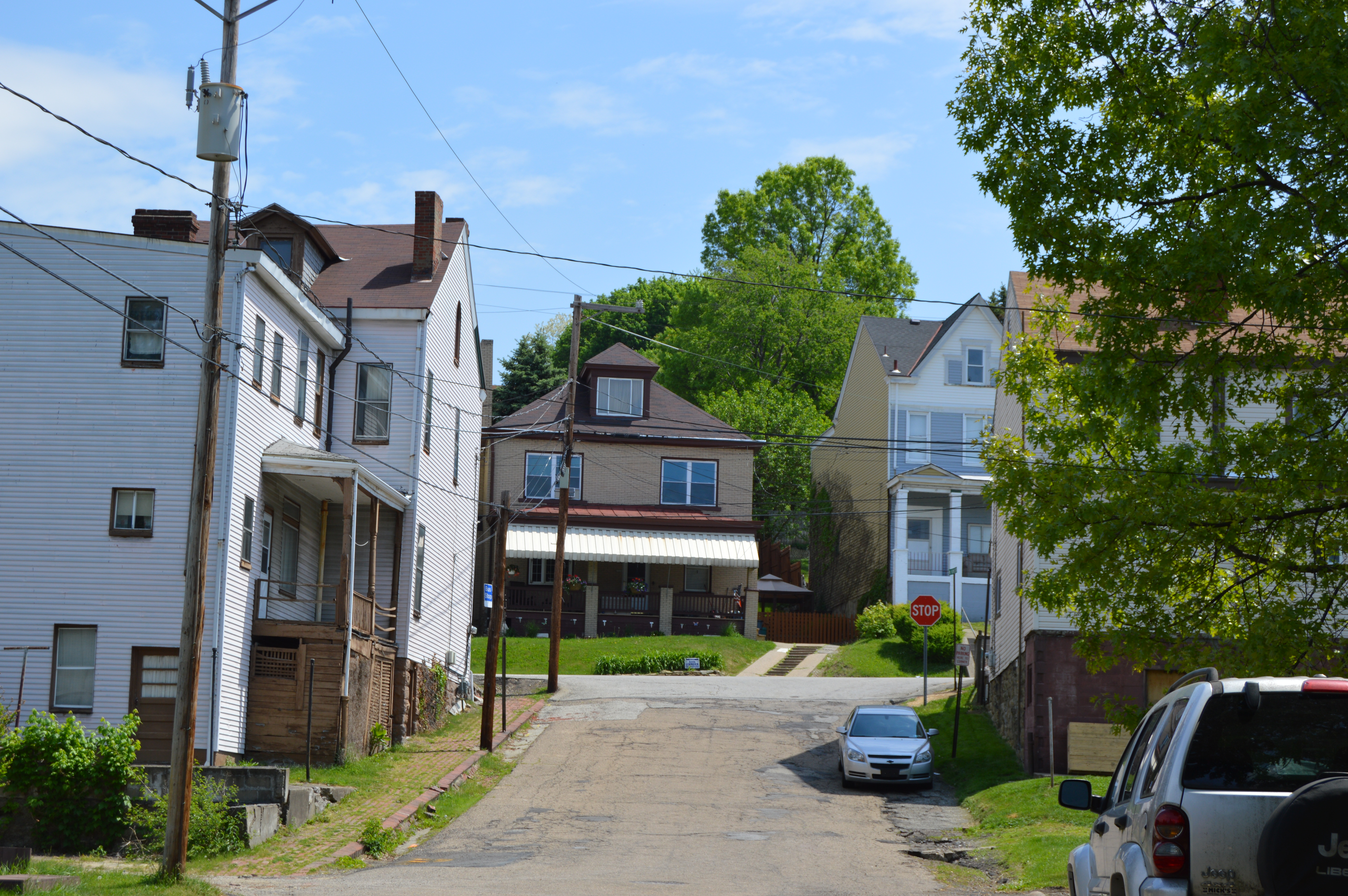 Looking east on Homestead Street toward the Mount Troy Road intersection in Reserve Township, Allegheny County, Pennsylvania, United States.